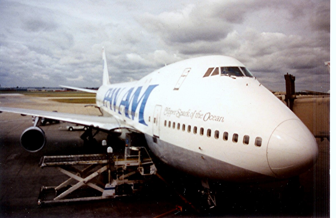 Pan Am 747-121. Most of its parts have been recycled and some are probably in your refrigerator right now holding 12 ounces of beer!